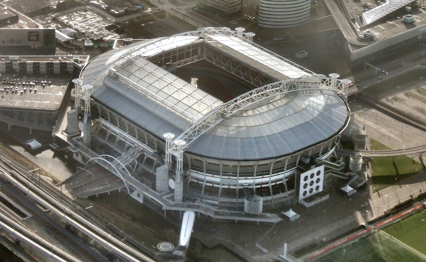 Aerial photograph of the Amsterdam ArenA, roof open